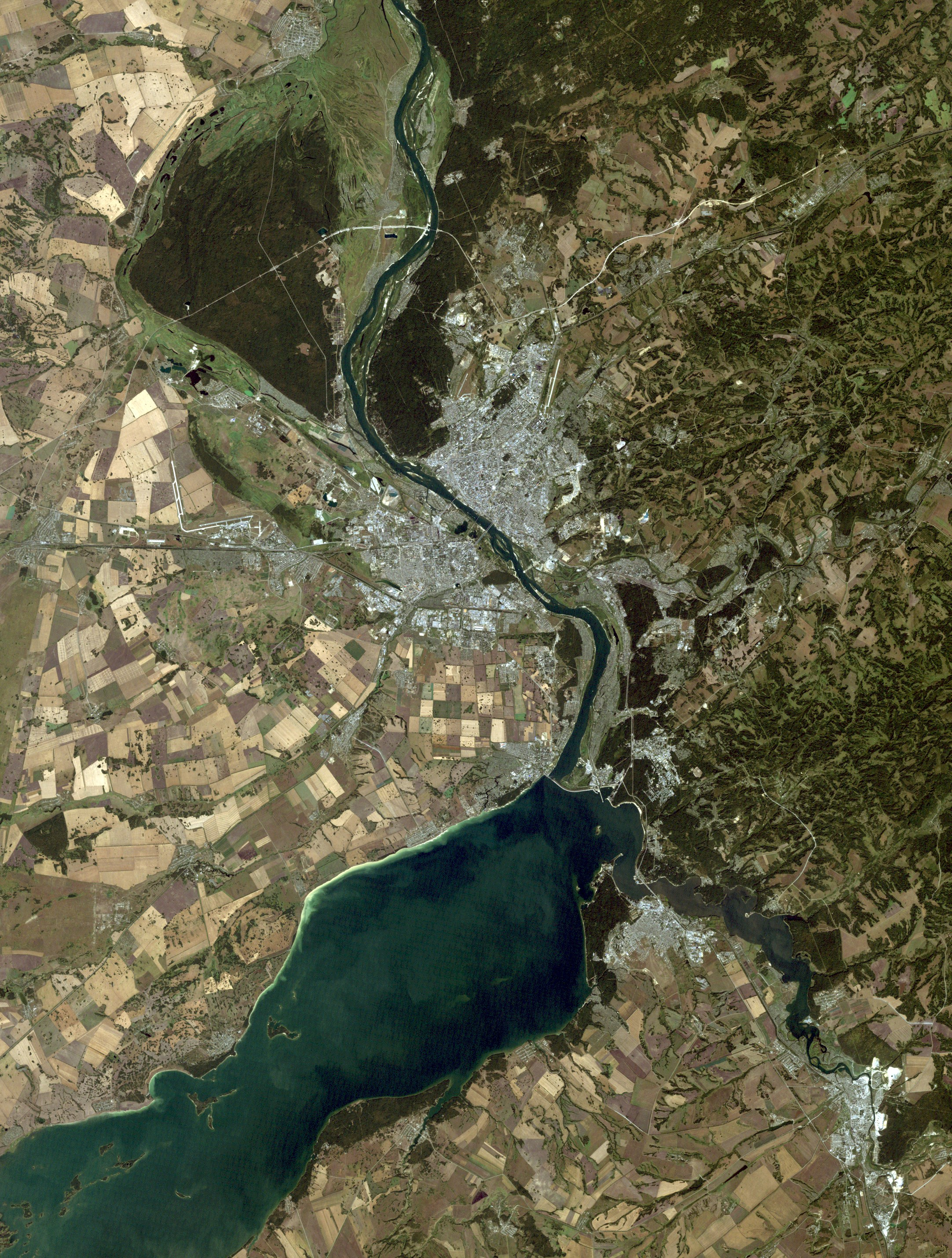 Novosibirsk, Russia, city and vicinities, near natural colors satellite image, LandSat-5, 2010-09-08, resolution 30 m